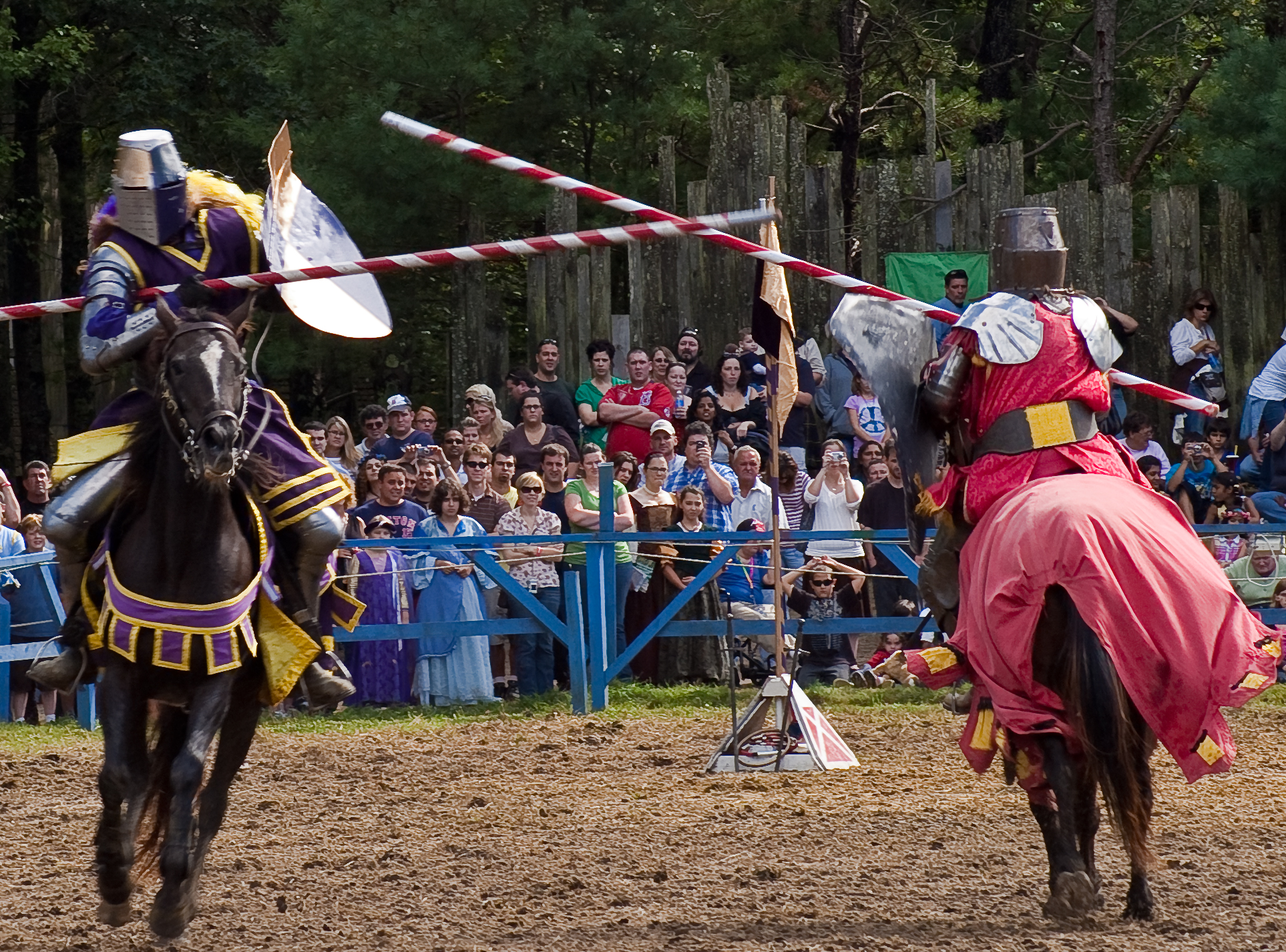 Taken at King Richard's Faire in Carver, MA